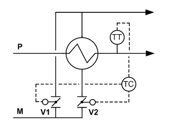 HEX with bypass